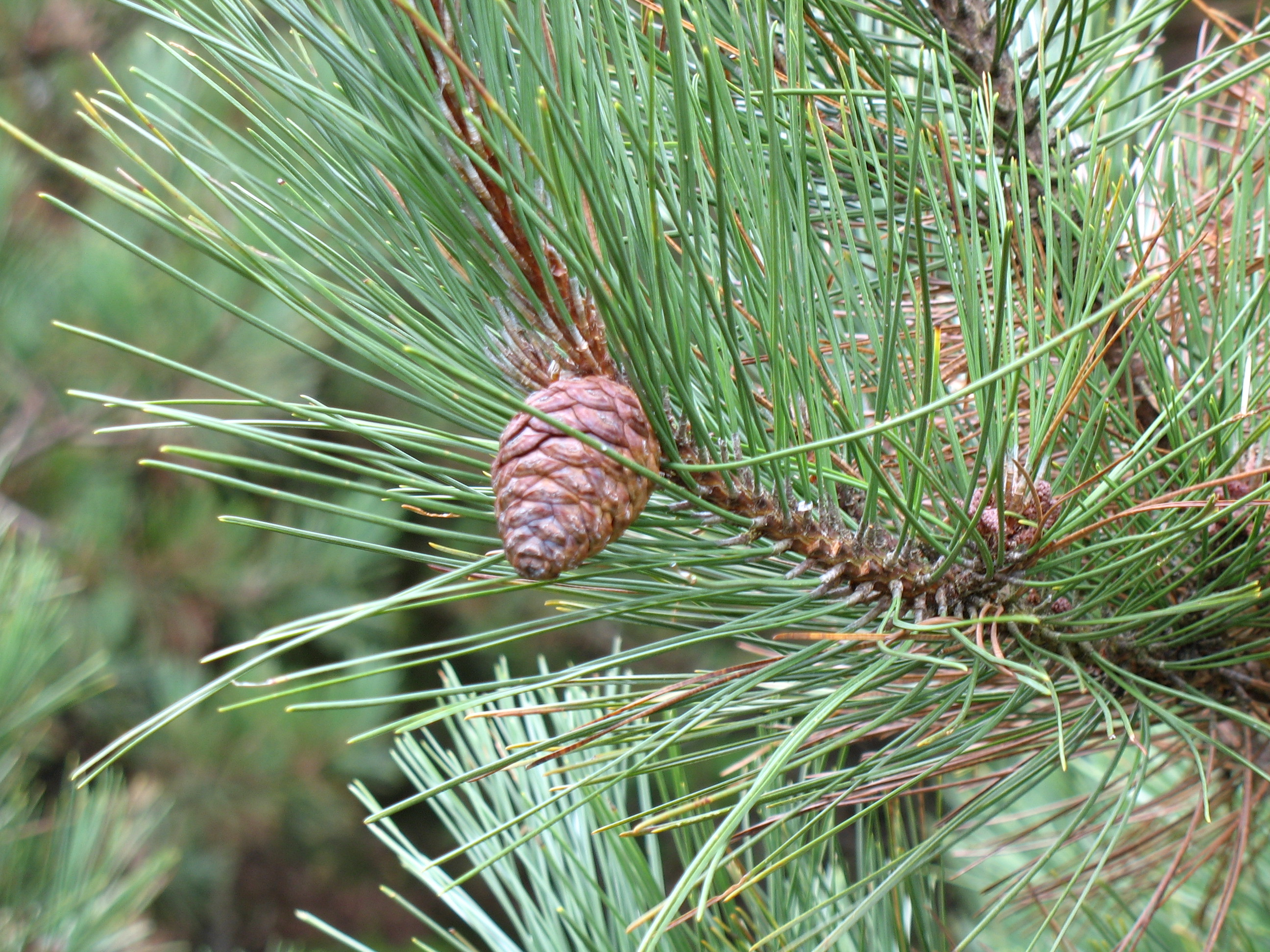 Pinus resinosa foliage and mature cone. West Virginia.